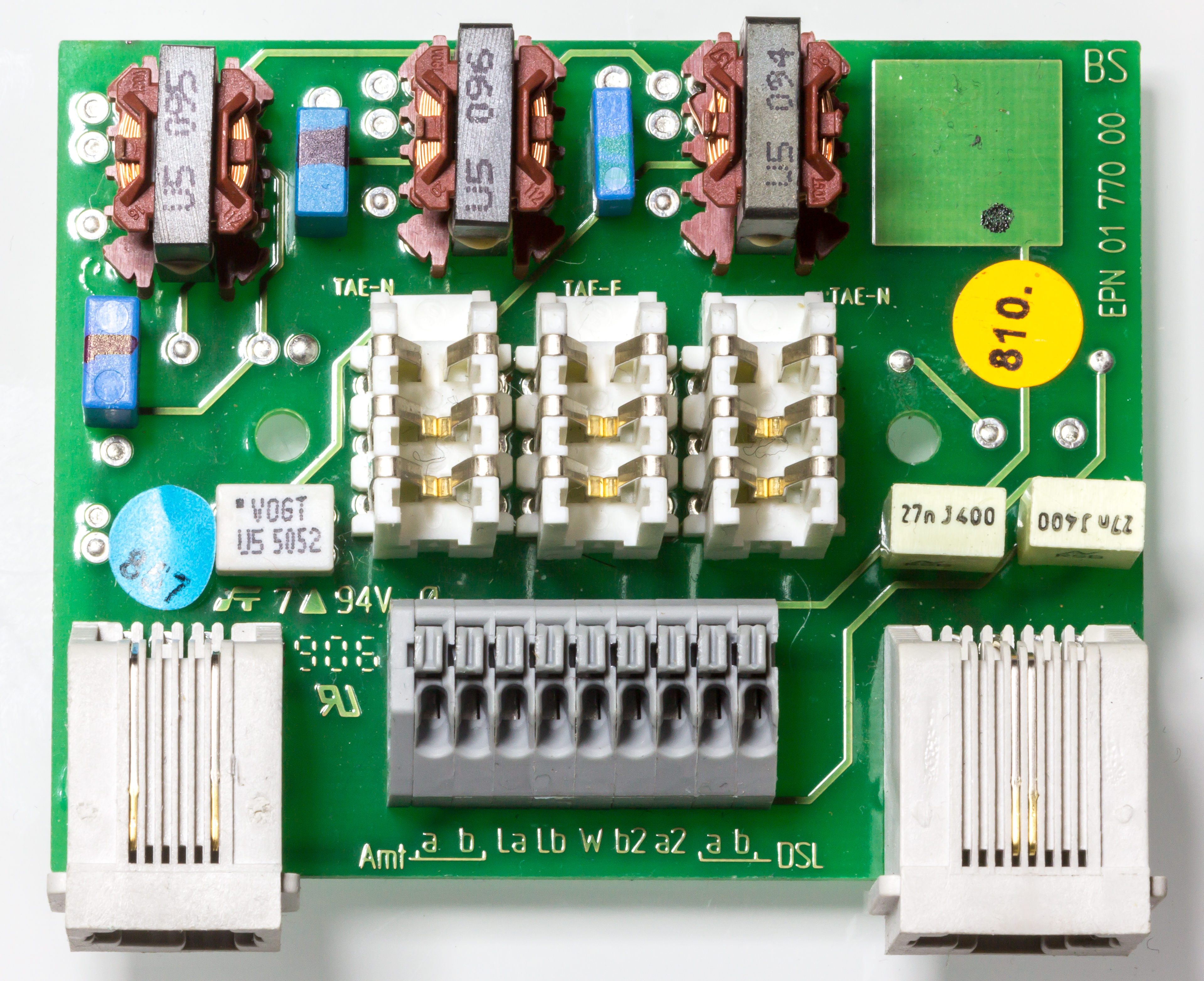 DSL-Splitter Deutsche Telekom, made by Vogt Electronic